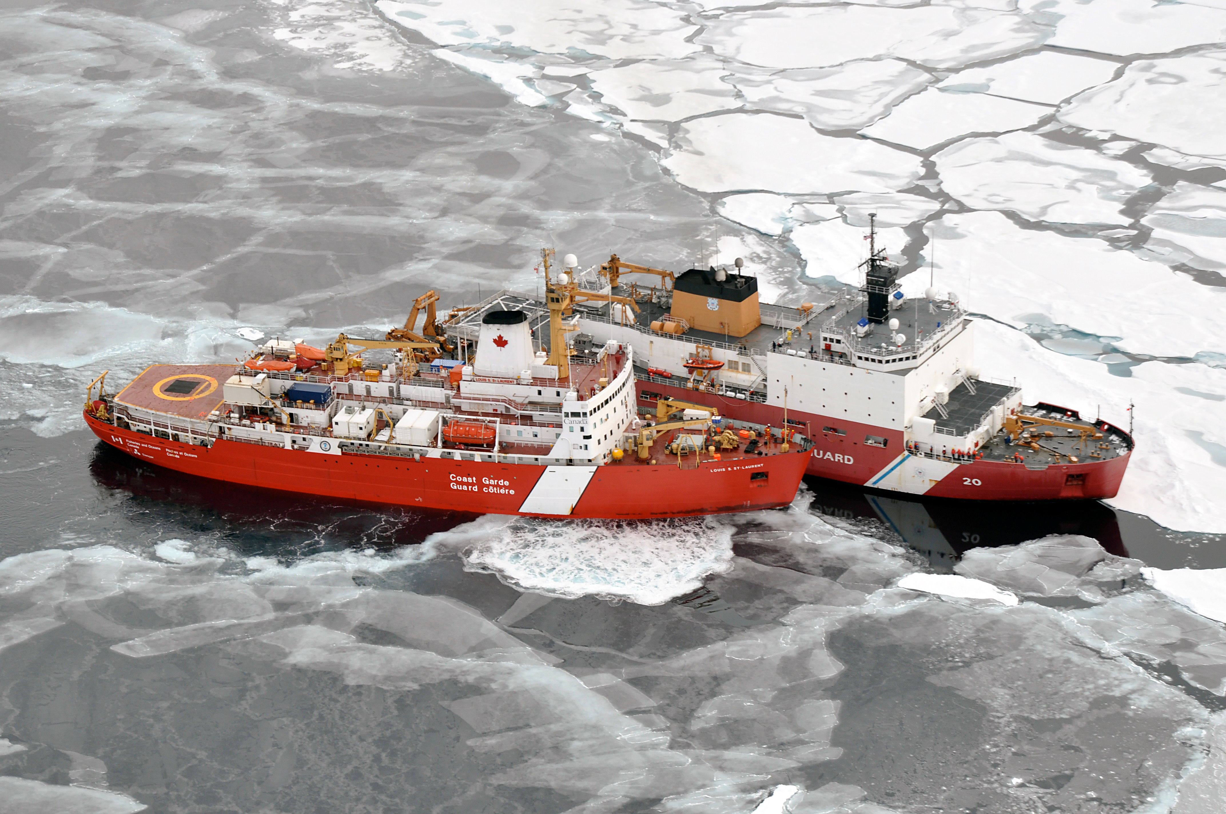 Arctic. September 5, 2009.